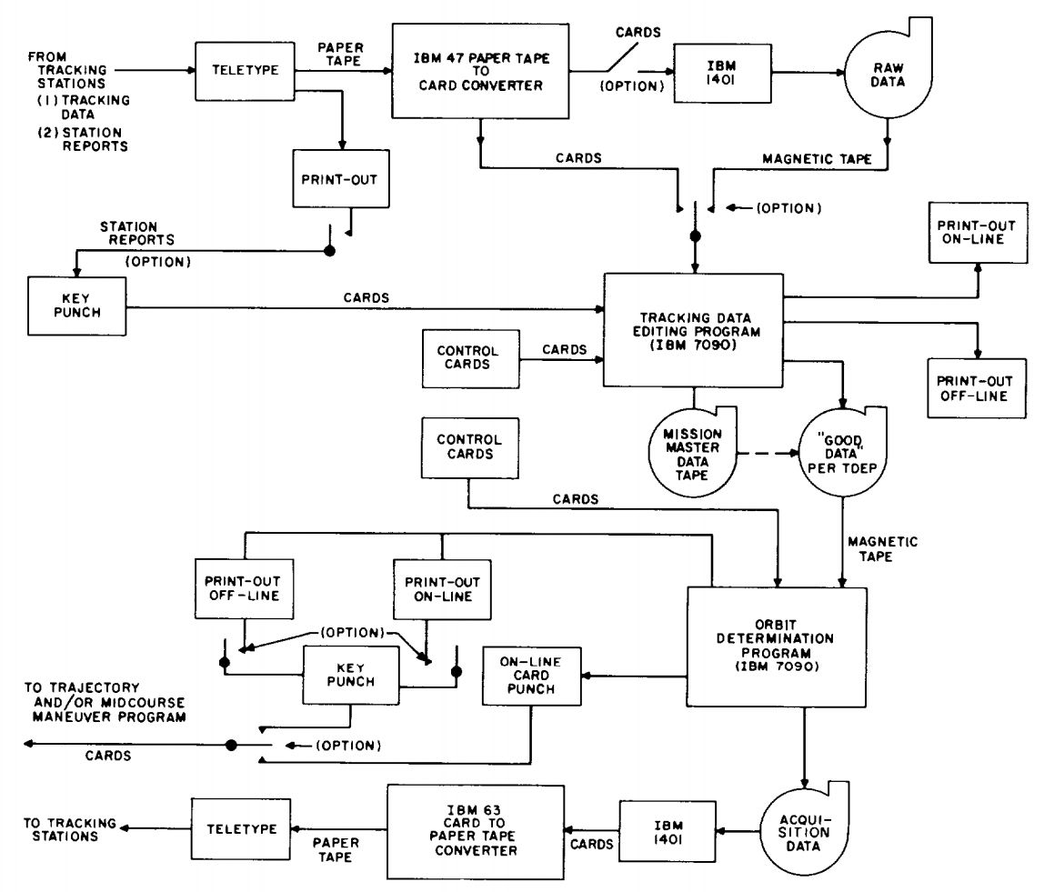 Functiional block diagram of orbit determination operations